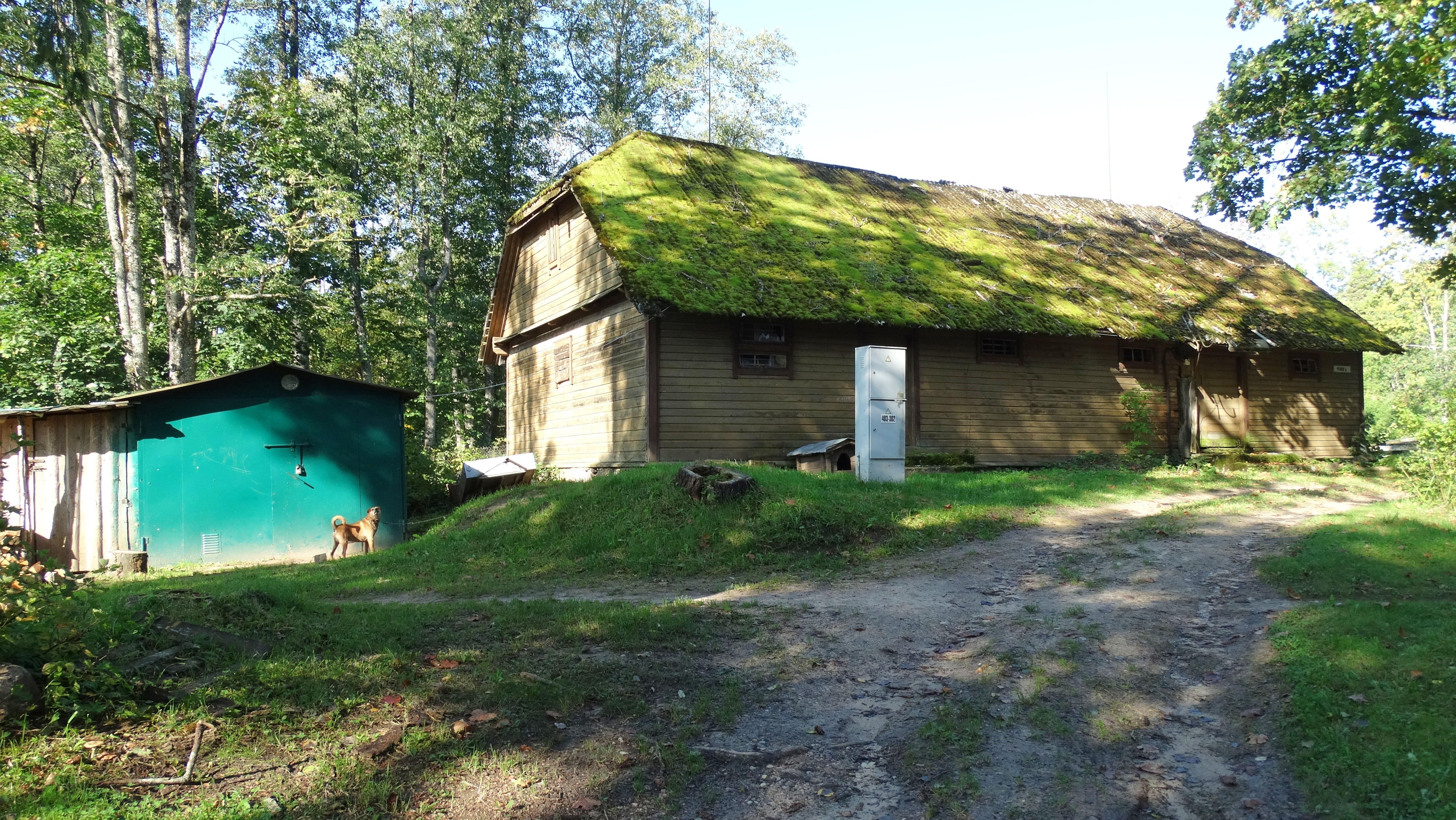 Jasonys, Utena District, Lithuania